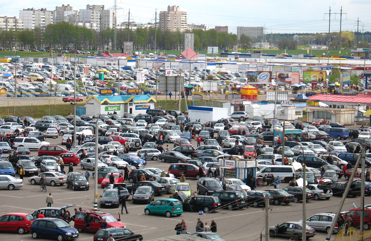 Motor-car market in Minsk.